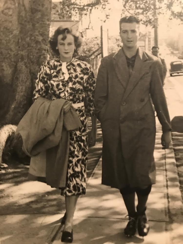 Ron Rowles with wife Peggy, both aged 17, prior to first first-grade debut with Collegians Rugby League Football Club in 1946.